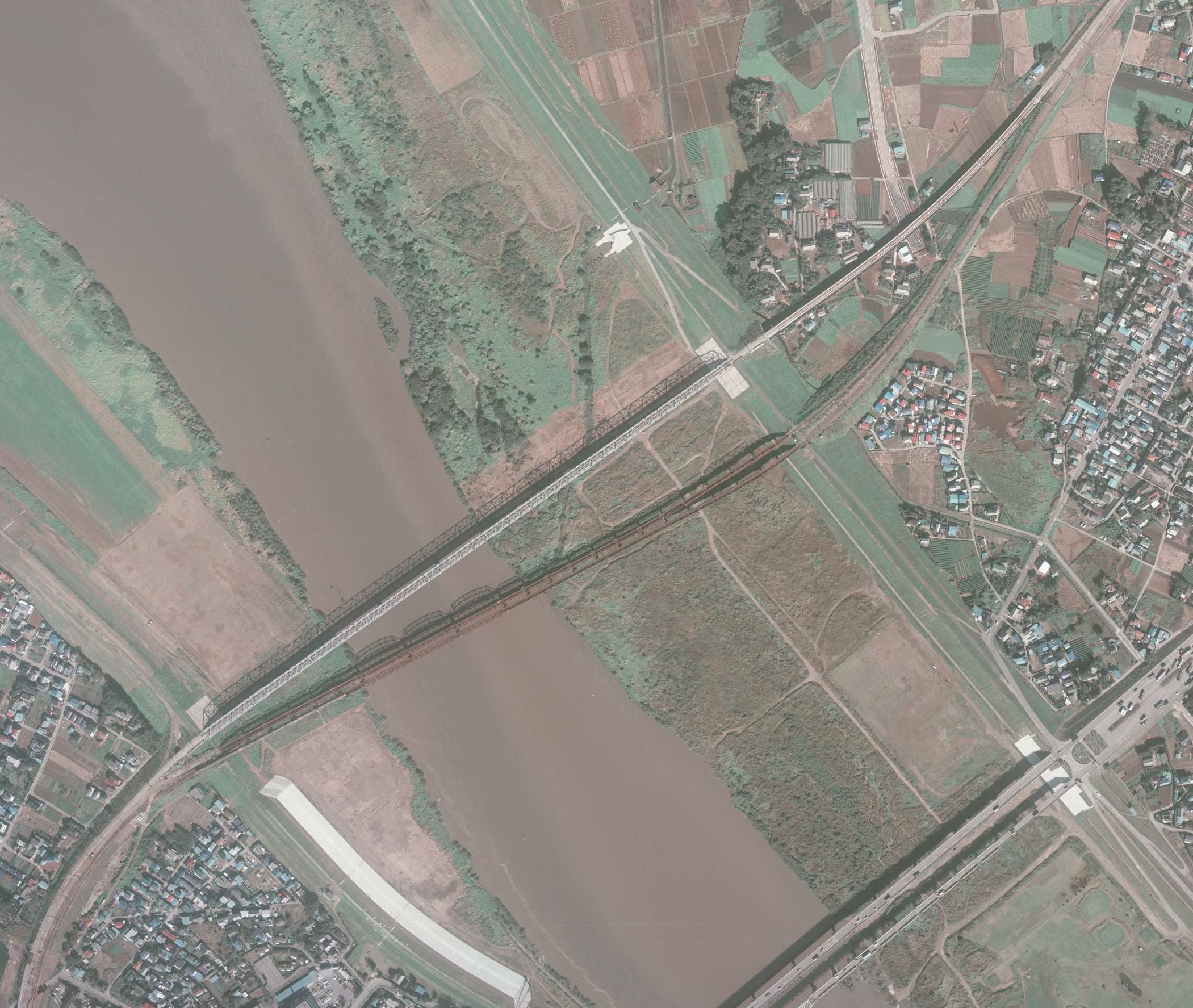 Aerial photo of Tonegawa (Tone river) bridge on Tohoku mainline, Kazo, Saitama, Japan and Koga, Ibaraki, Japan. In the right lower side, the old two single track bridges are shown. In the left upper side, the new double track bridge is shown.